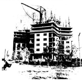 12-հարկանի շենքի կառուցումը ծածկերի բարձրացման մեթոդով